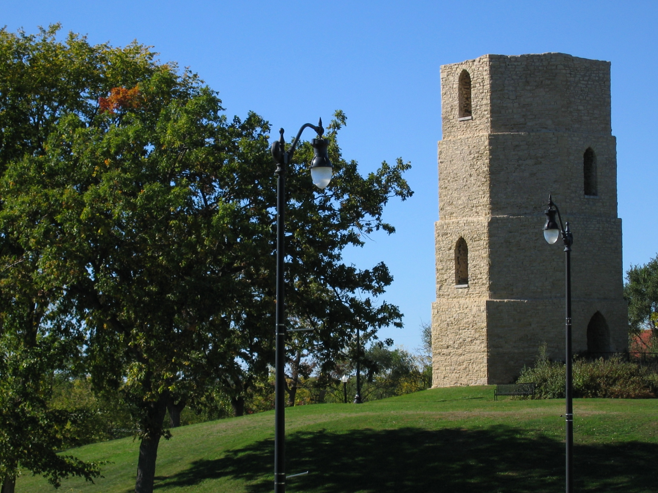 Old Stone Water Tower in Water Tower Place Park.